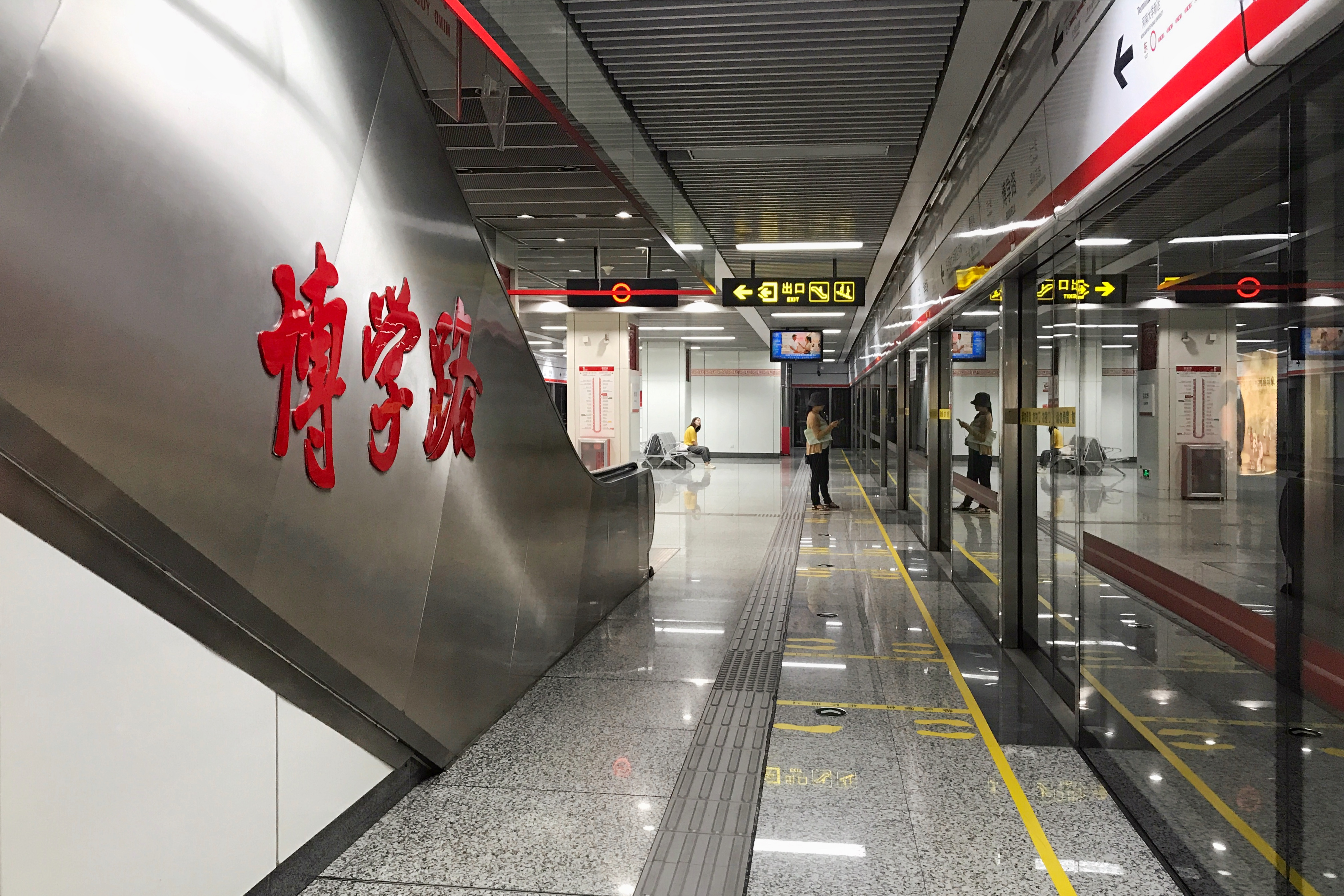 Platforms of Zhengzhou Metro Boxuelu Station